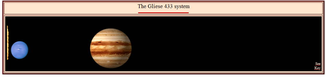 Diagram of the (probable) Gliese 433 Star system.